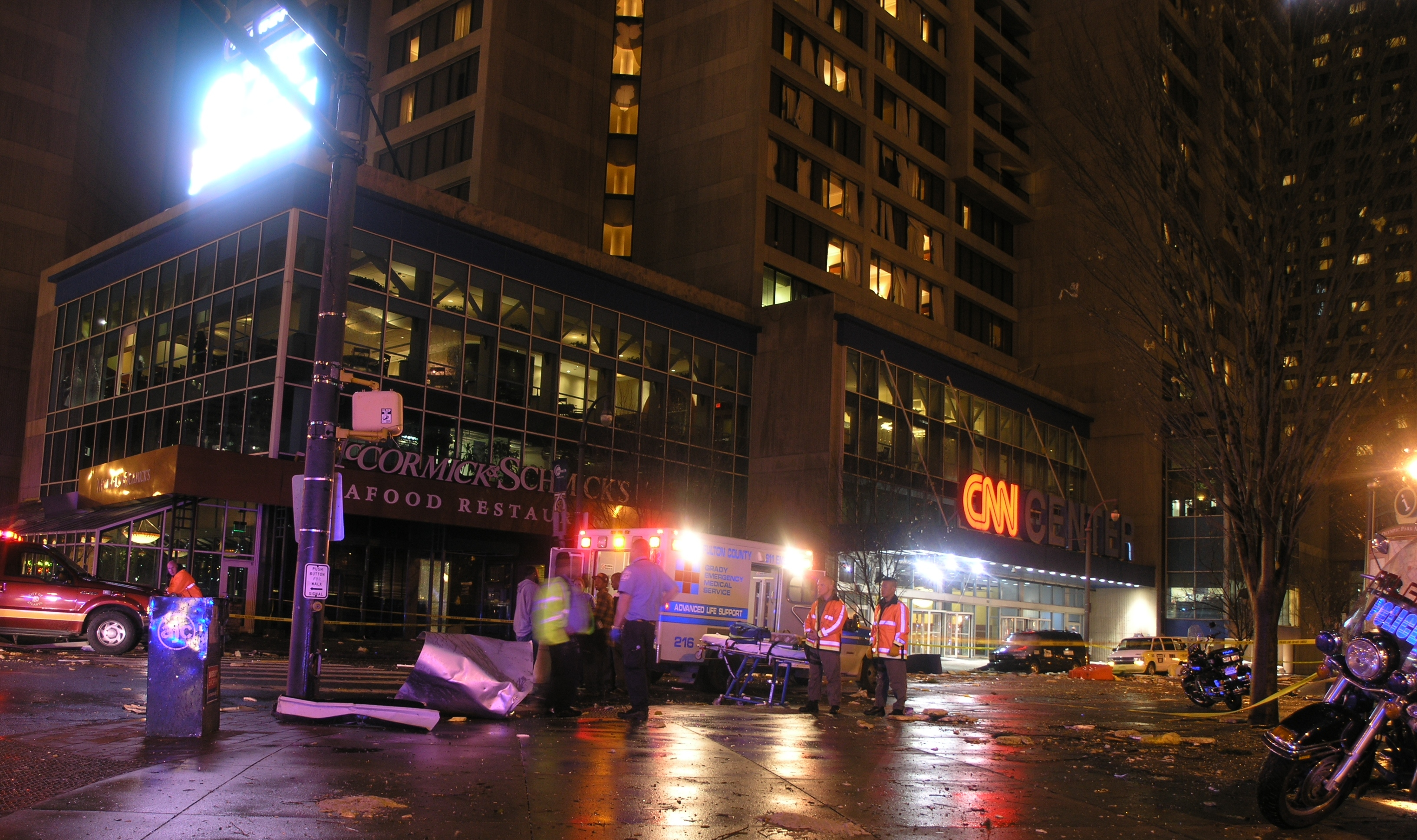 14 March 2008 Downtown Atlanta storm